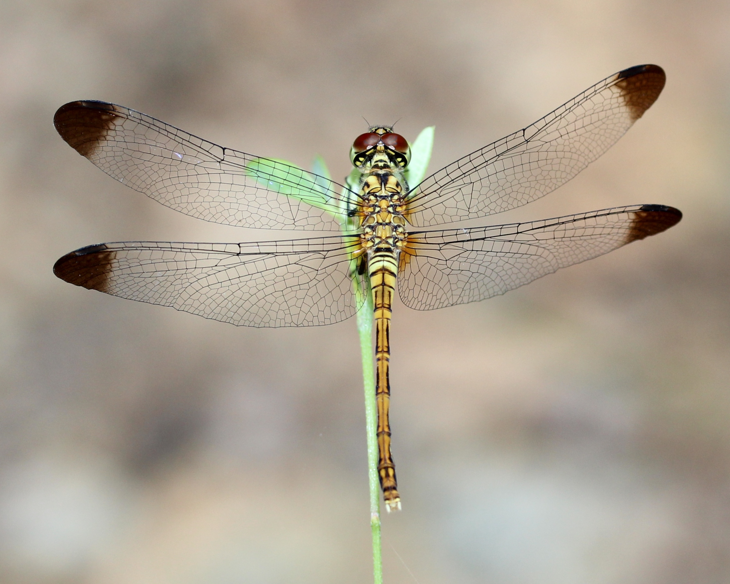 Sympetrum eroticum eroticum (Selys, 1883), female in Aichi prefecture, Japan.